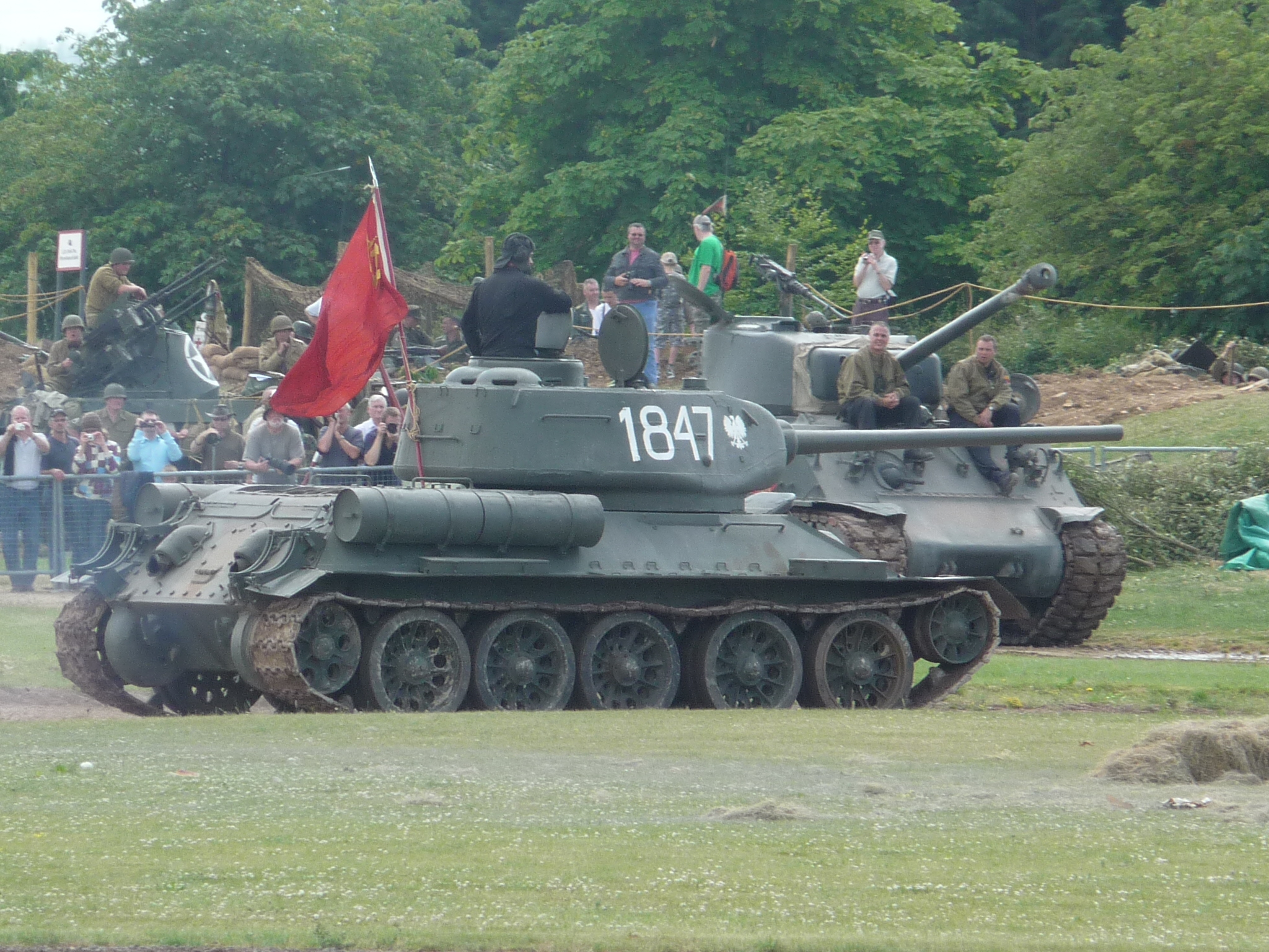 T-34-85 during Tankfest 2009. As evidenced by the markings on the turret the tank was in service with the Polish Army at some point.